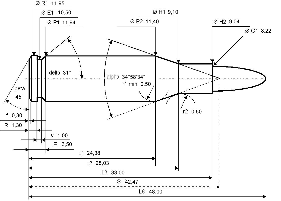 7.92×33mm Kurz maximum C.I.P. cartridge dimensions. All sizes in millimeters (mm).